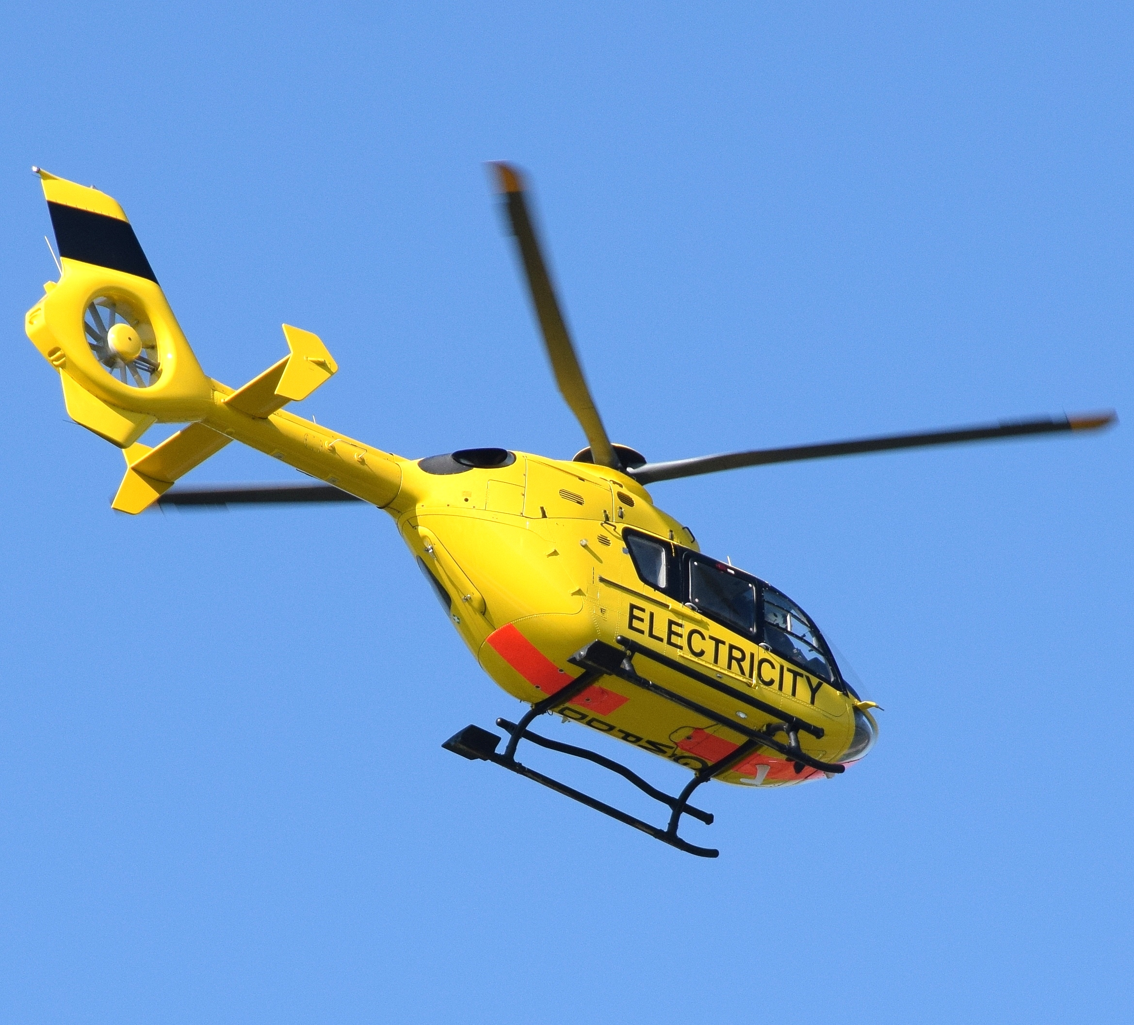 Eurocopter EC135P1 of Western Power Distribution (G-WPDD) leaves Bristol Airport, England. This helicopter is for the inspection of electricity lines.